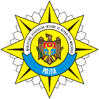 Emblem of police of Moldova